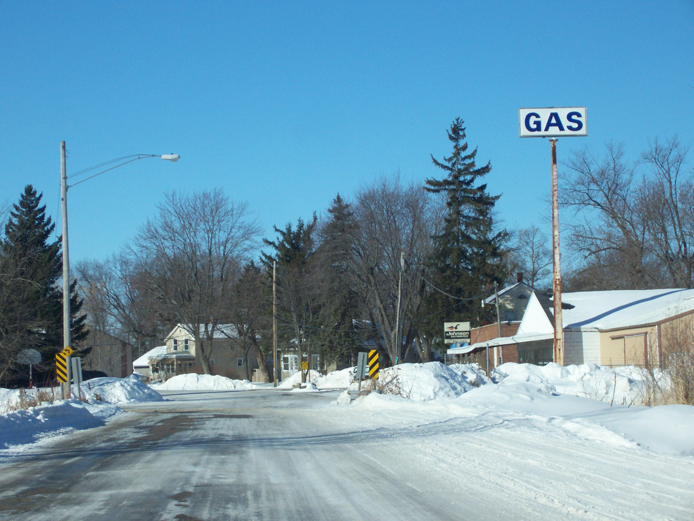 Looking west at Fremont, Waupaca County, Wisconsin.